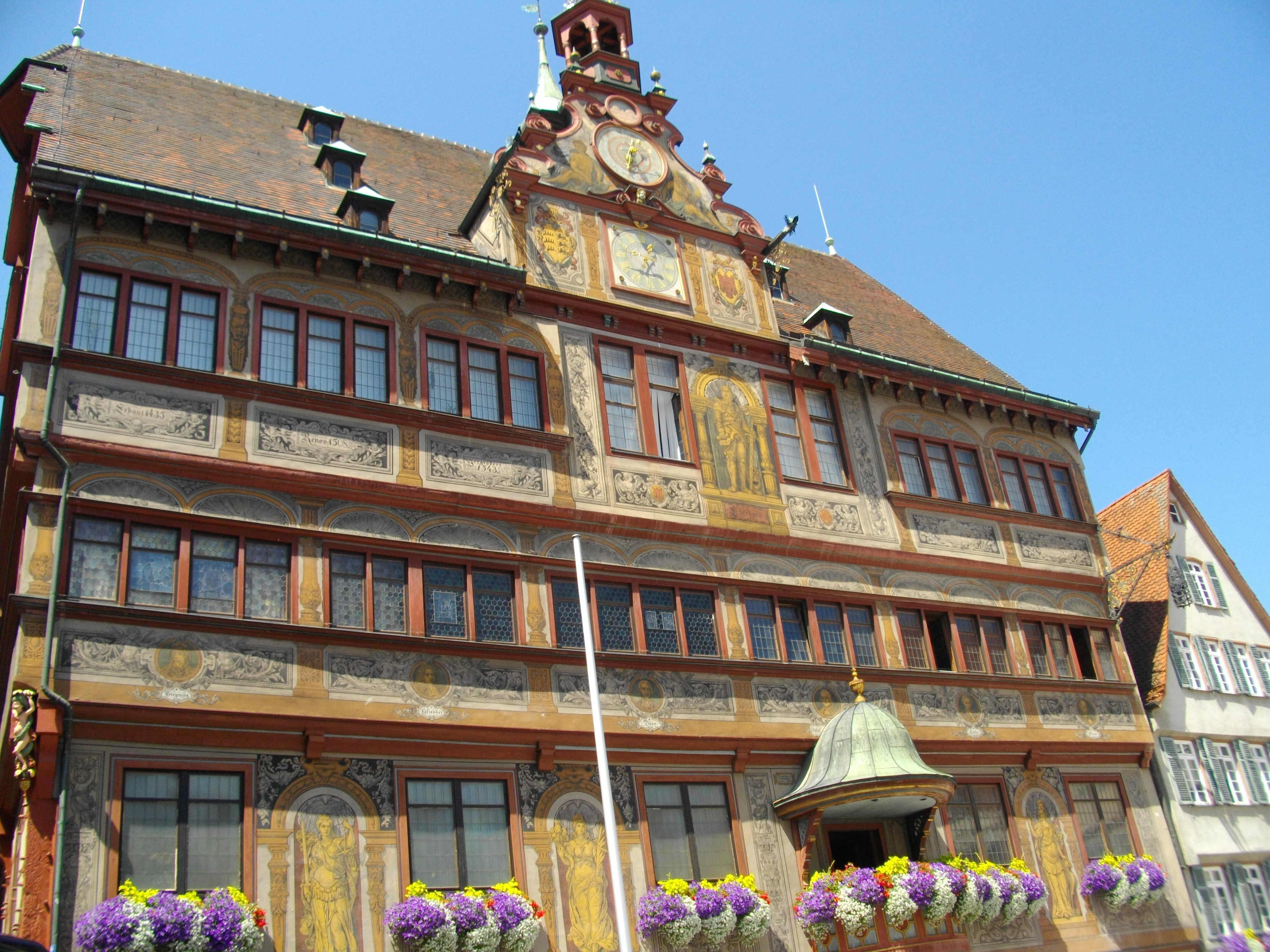 Town hall in Tubingen, Germany